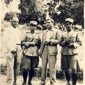 Shmaria Zameret